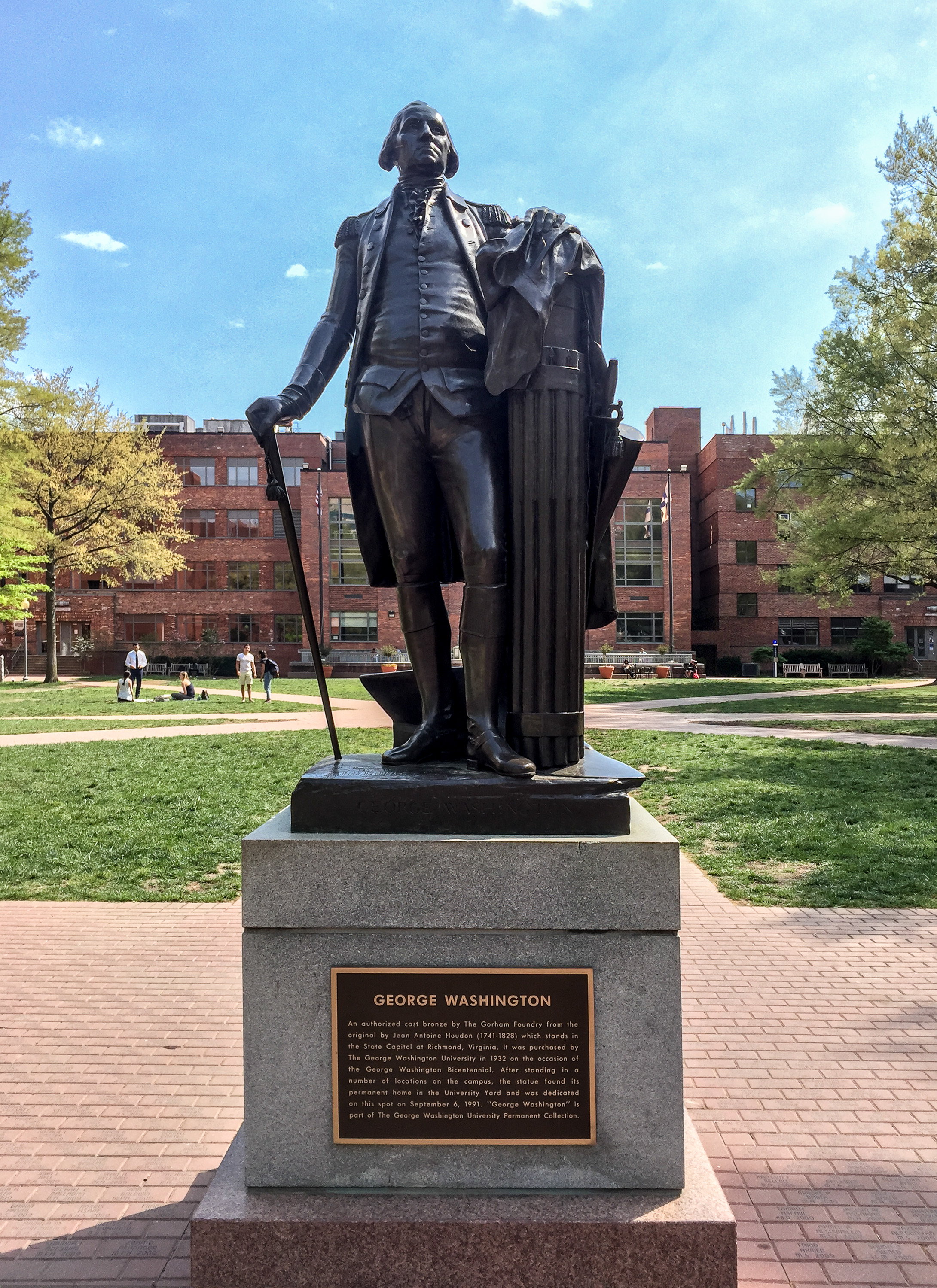 Statue of George Washington in the University Yard at George Washington University. A copy of an original by Houdon.